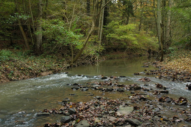 Dowles Brook The Dowles Brook in the Wyre Forest, the county boundary between Worcestershire (the far bank) and Shropshire follows the course of the brook at this point.